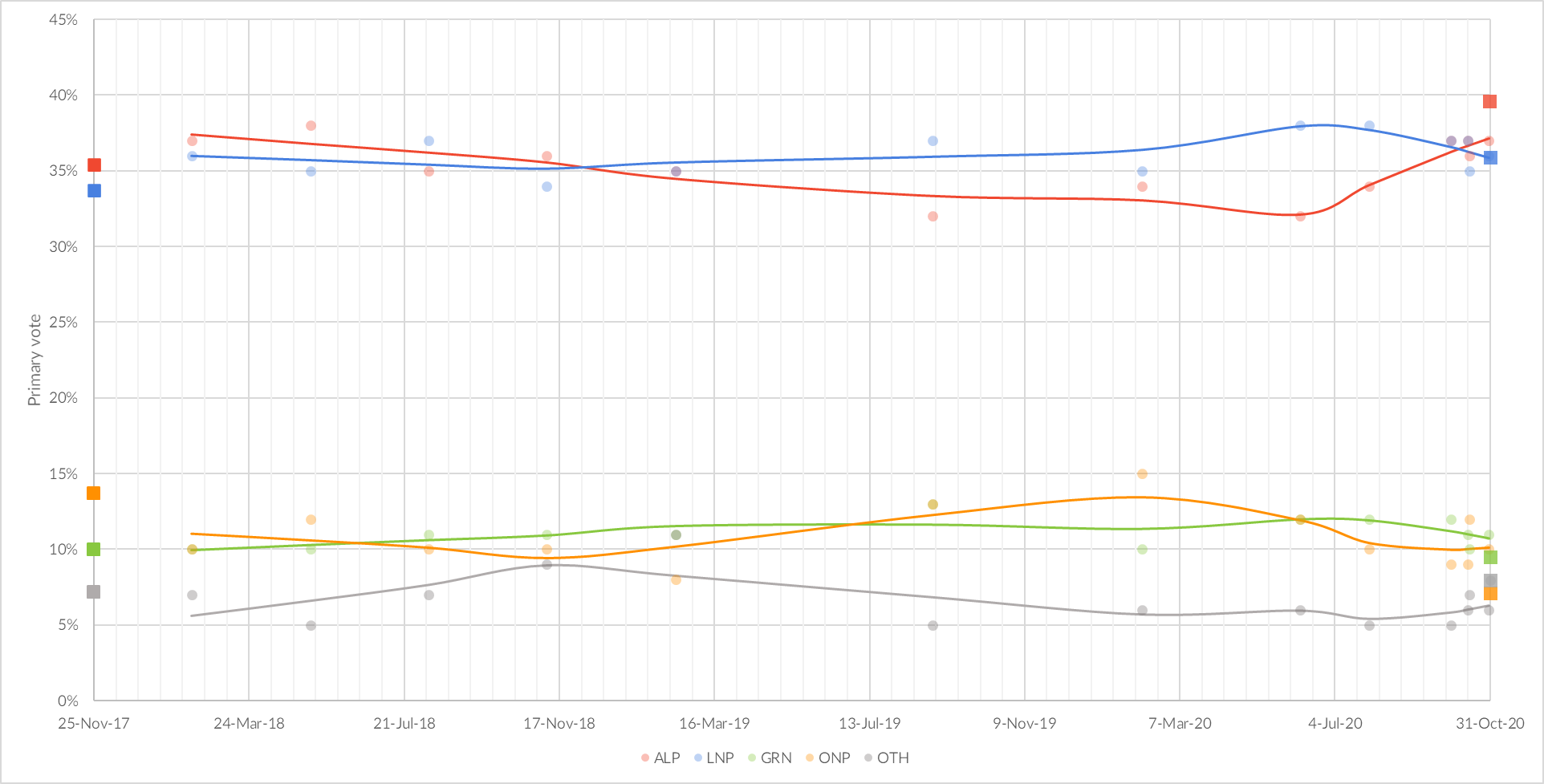 Aggregate of primary vote polling for the 2020 Queensland state election. Local regression trends for each party are represented by solid lines.